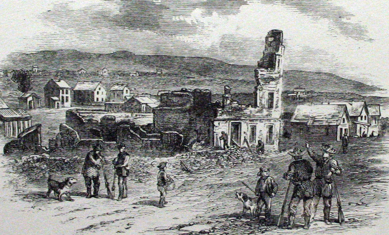 Ruins of Free State Hotel after Sacking of Lawrence. Image from State Historical Society of Missouri.